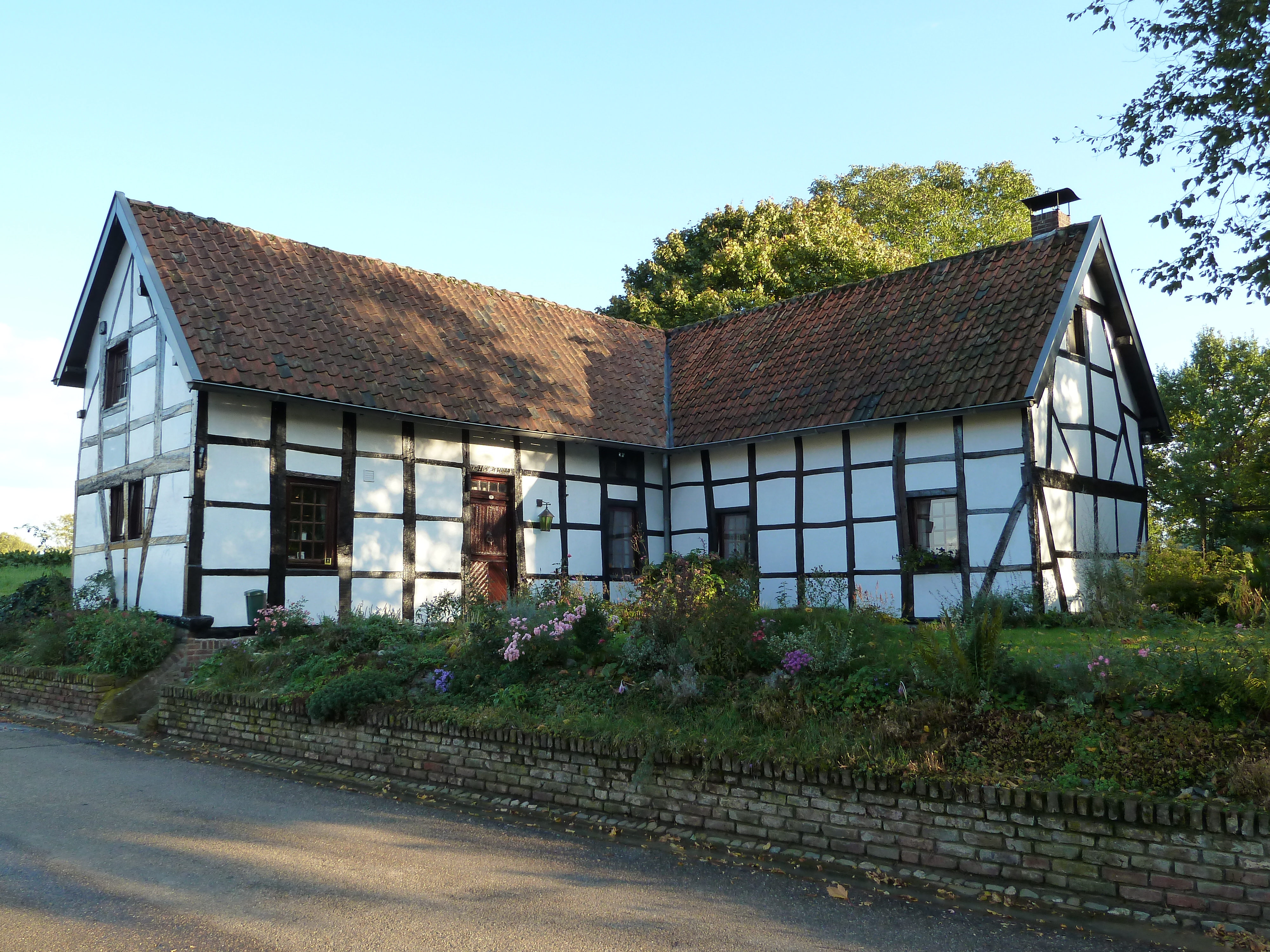 Libeek 24, Sint Geertruid, Limburg, the Netherlands